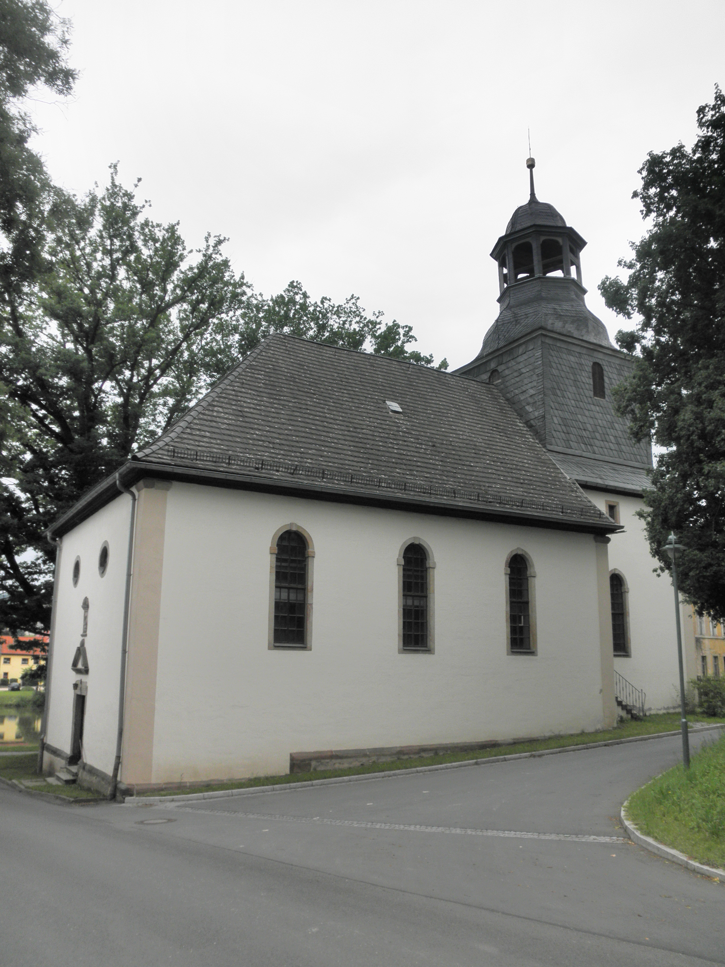 Church in Lausnitz in Thuringia